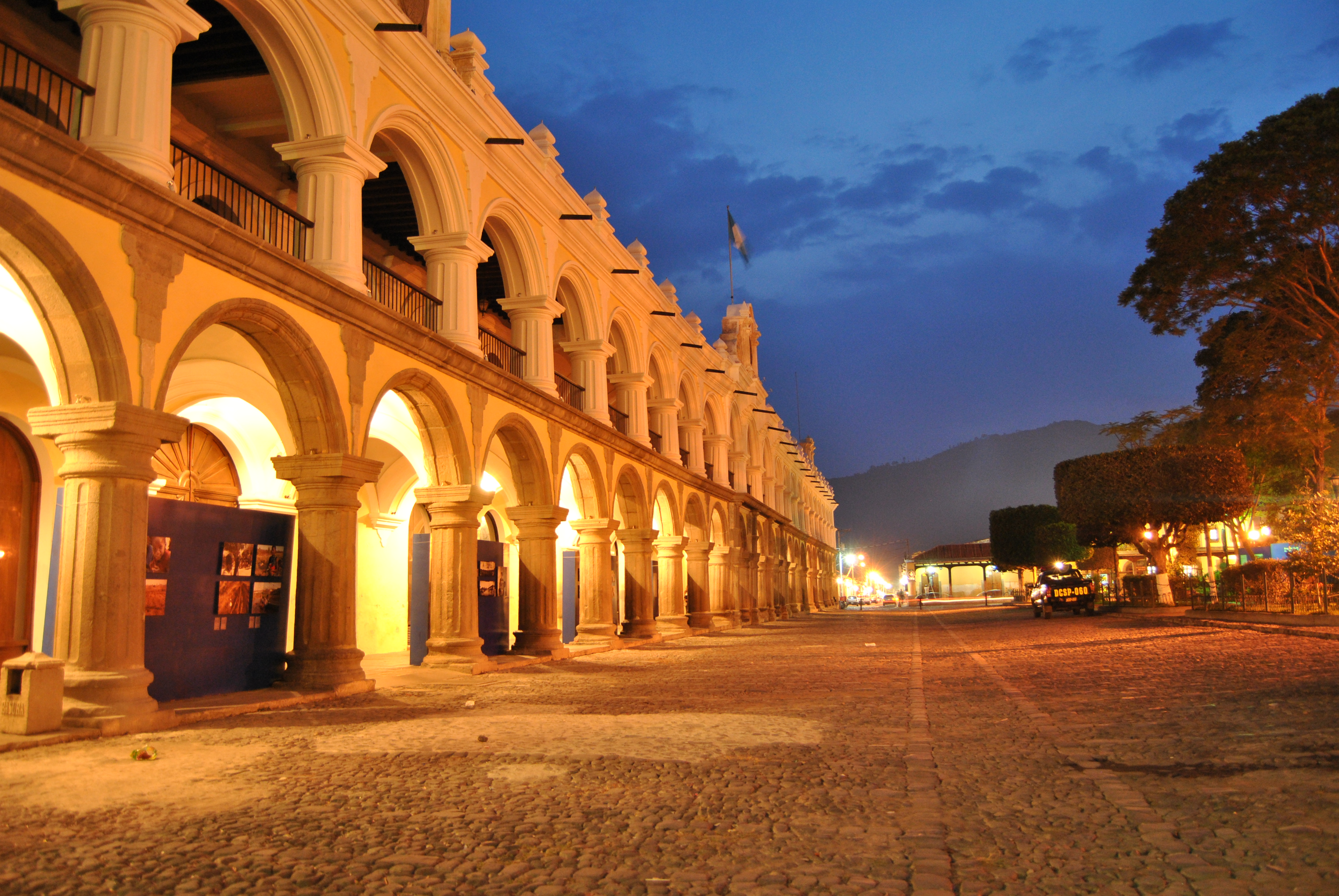 Palacio de Ayuntamiento en La Antigua Guatemala